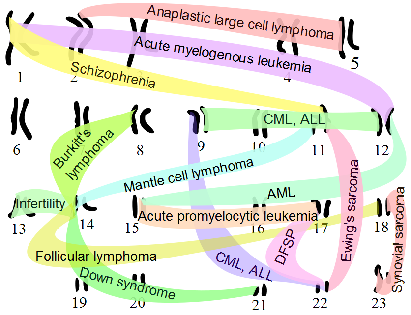 Chromosomal translocations, giving an overview of chromosomes involved. Precise locations within the chromosomes are not specified. Most are cancer forms, but also other conditions, e.g. t(1;11), which is is associated with schizophrenia[1]. Chromosomes are arranged in standard karyogram order. Abbreviations: ALL - Acute lymphoblastic leukemia AML - Acute myeloid leukemia CML - Chronic myelogenous leukemia DFSP - Dermatofibrosarcoma protuberans References See also: Chromosomal translocations ↑ Semple CA, Devon RS, Le Hellard S, Porteous DJ (April 2001). "Identification of genes from a schizophrenia-linked translocation breakpoint region". Genomics 73 (1): 123–6. PMID 11352574.